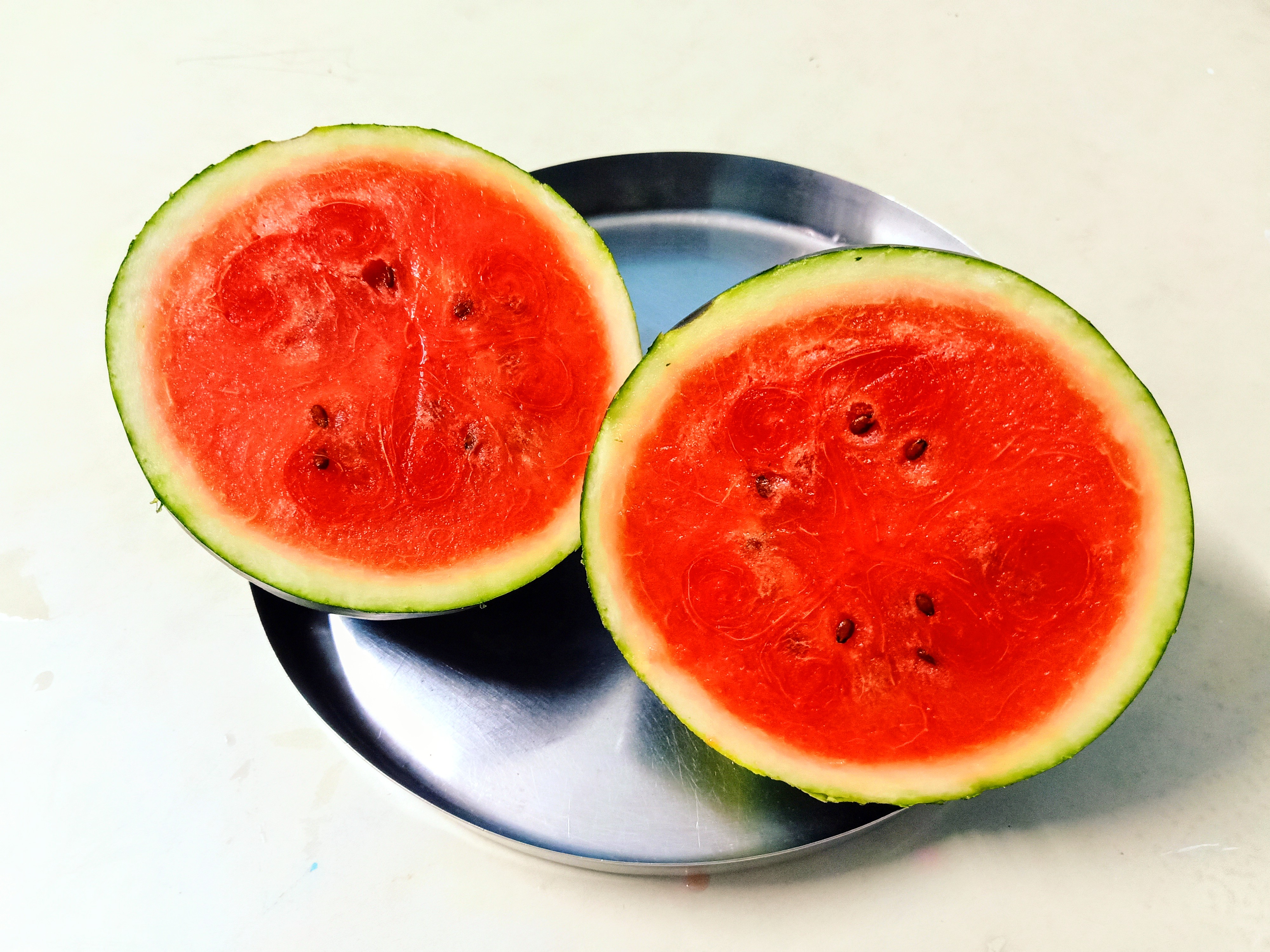 cutted watermelon in steel plate